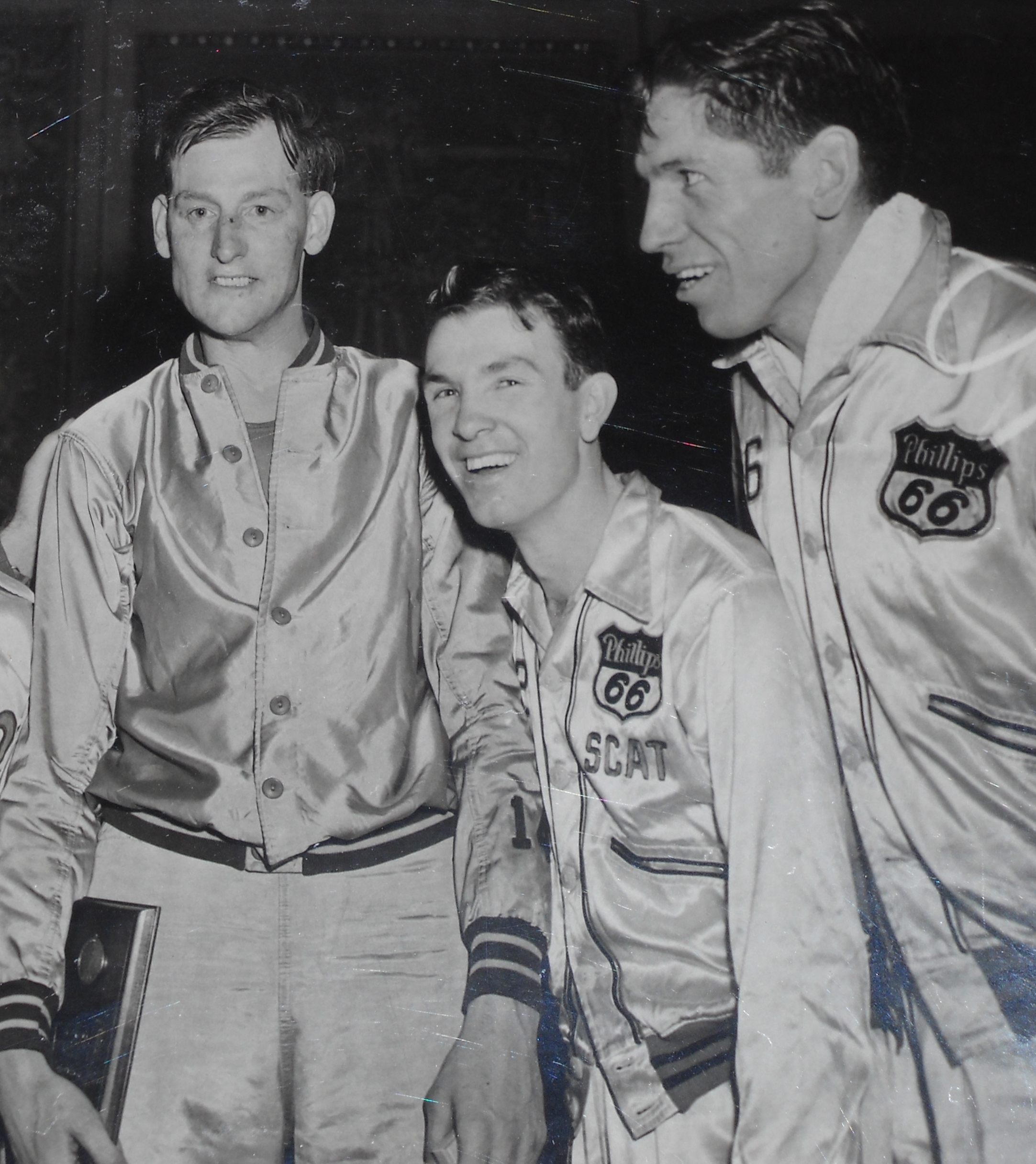 Photograph of AAU All-American basketball players Robert "Ace" Gruenig (left), Jimmy "Scat" McNatt (center), and Gordon "Shorty" Carpenter (right) after the AAU National Basketball Tournament in 1945, won by McNatt's and Carpenter's Phillips 66ers.